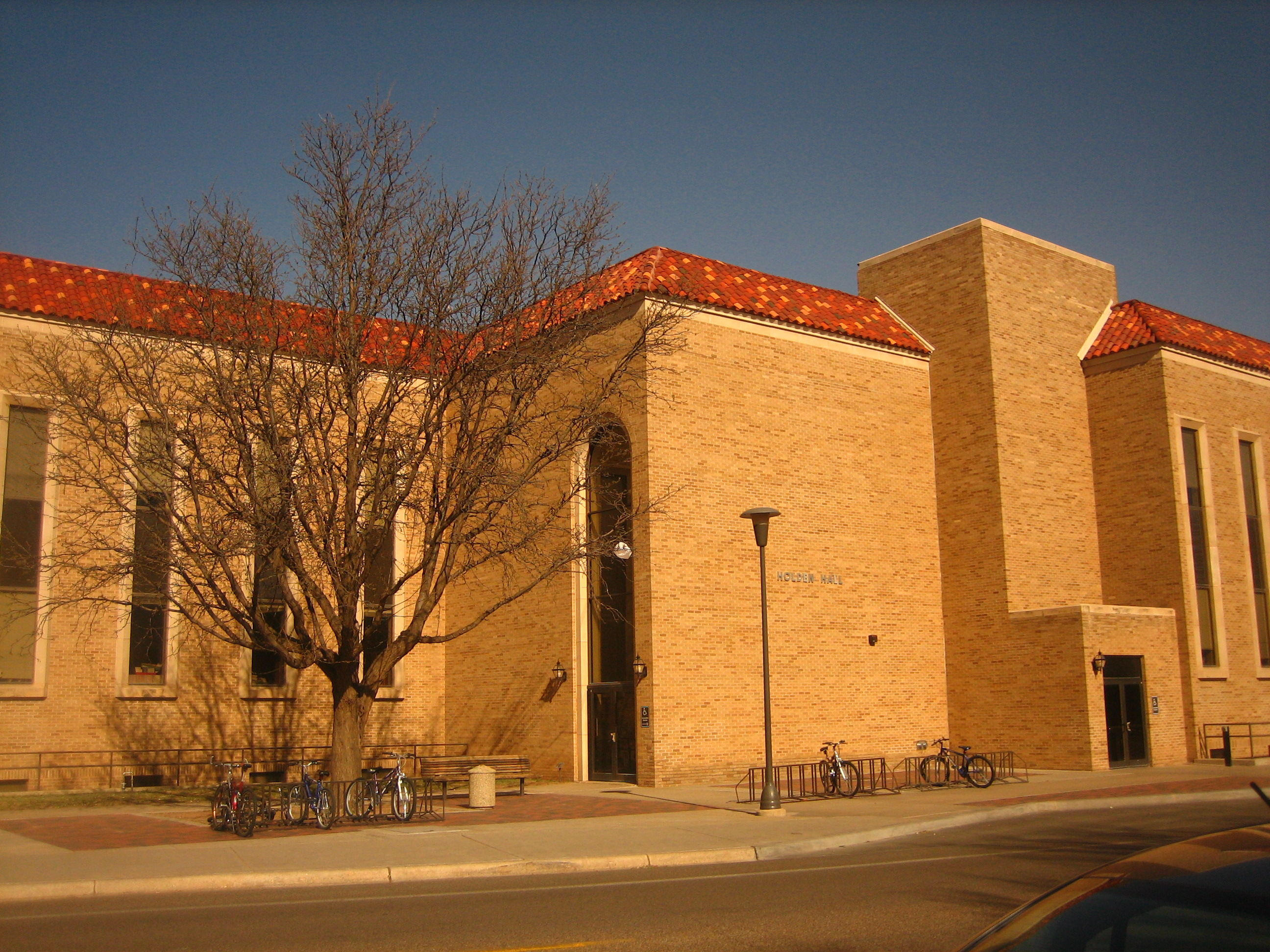 I took photo on April 4, 2009.Billy Hathorn (talk) 14:33, 10 April 2009 (UTC)